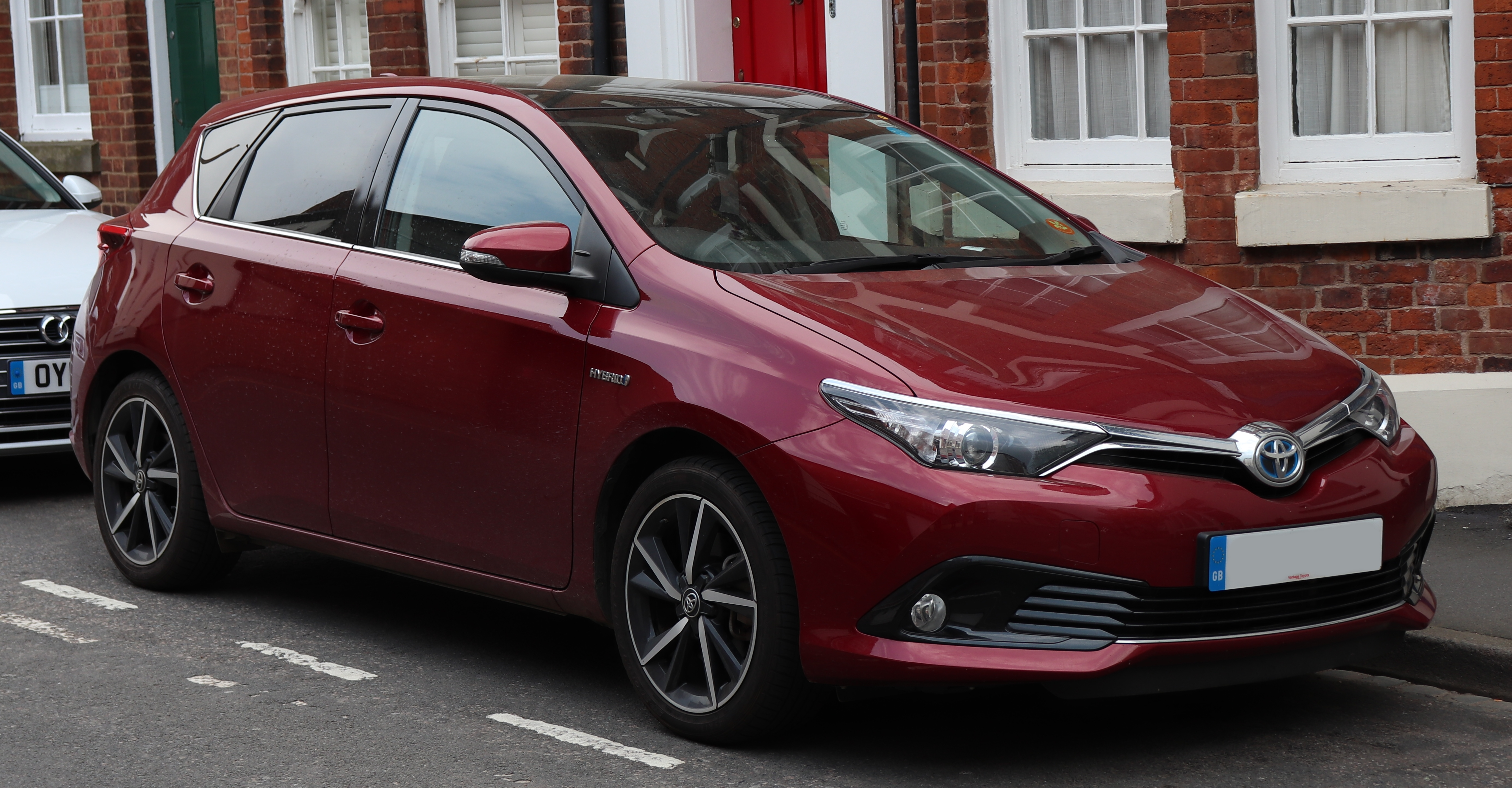 2017 Toyota Auris Design TSS Hybrid VVt-i CVT 2.0 Front Taken in Warwick